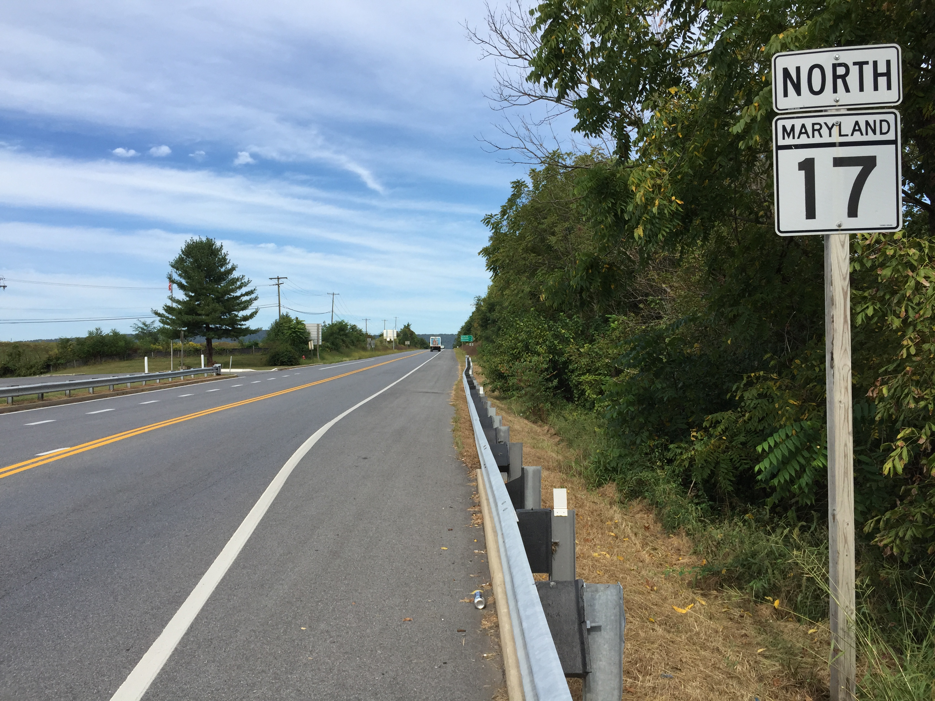 View north along Maryland State Route 17 (Burkittsville Road) at Maryland State Route 79 (Petersville Road) in Rosemont, Frederick County, Maryland